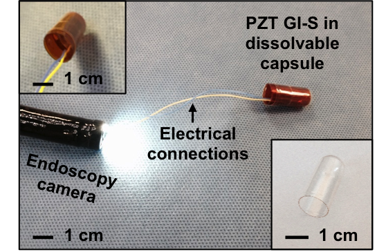 PZT GI-S project